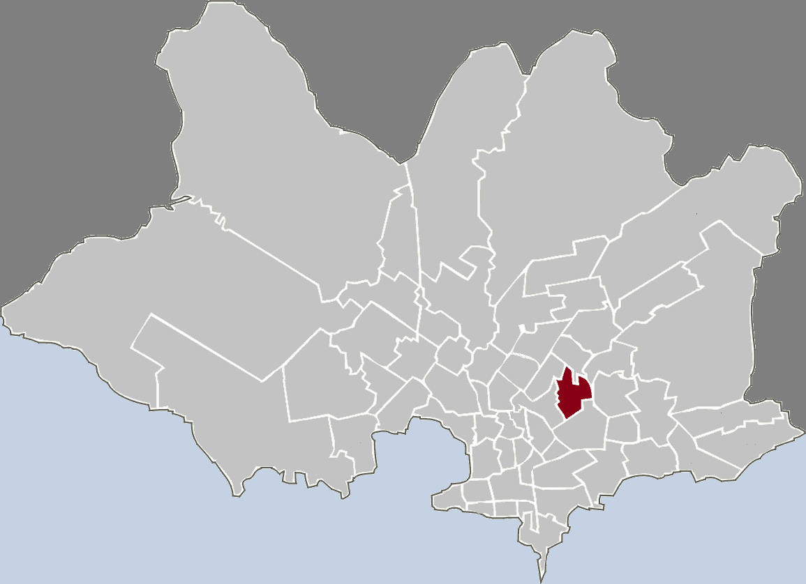 Map highlighting the given barrio in Montevideo.